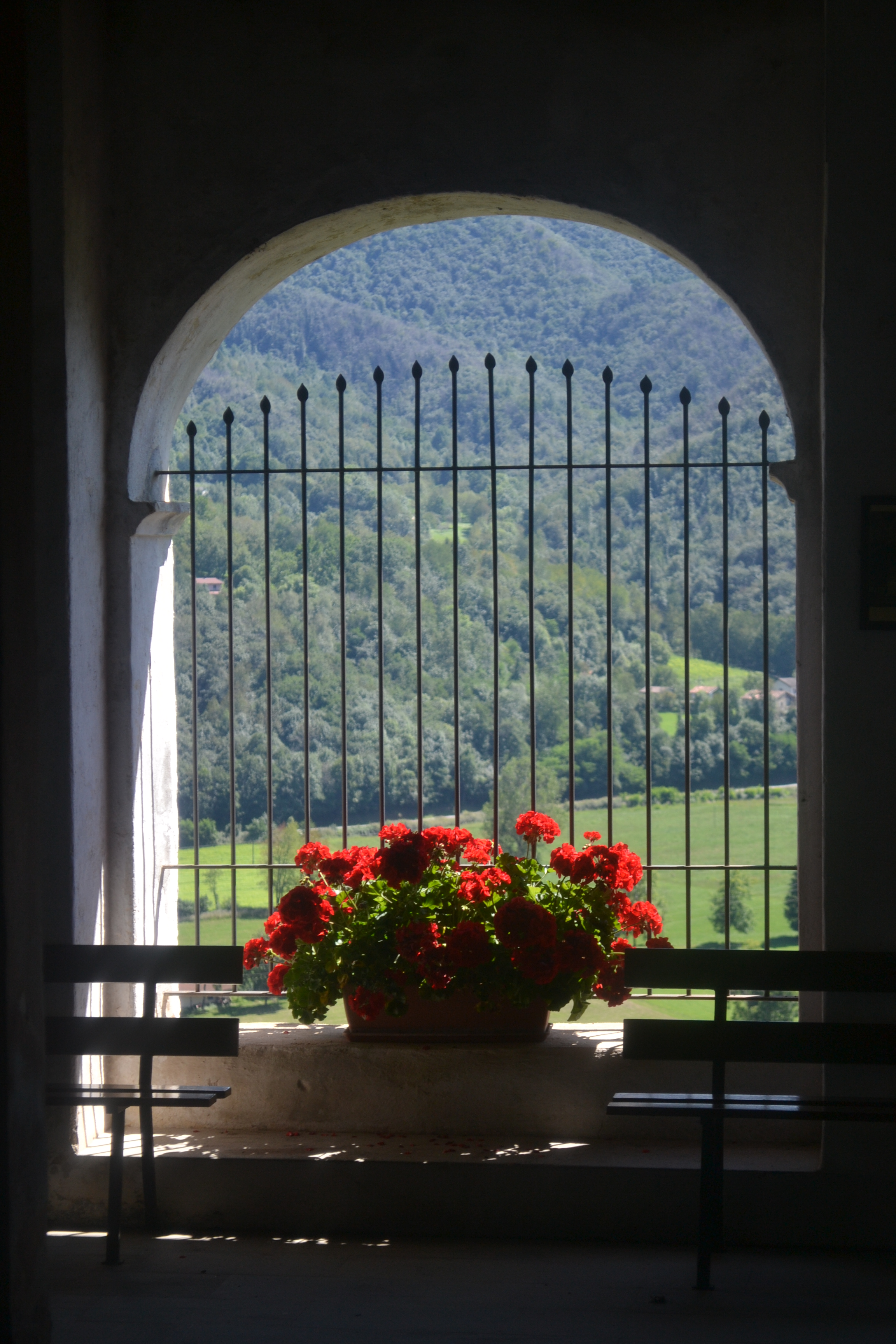 Santuario Santa Lucia Villanova Mondovì